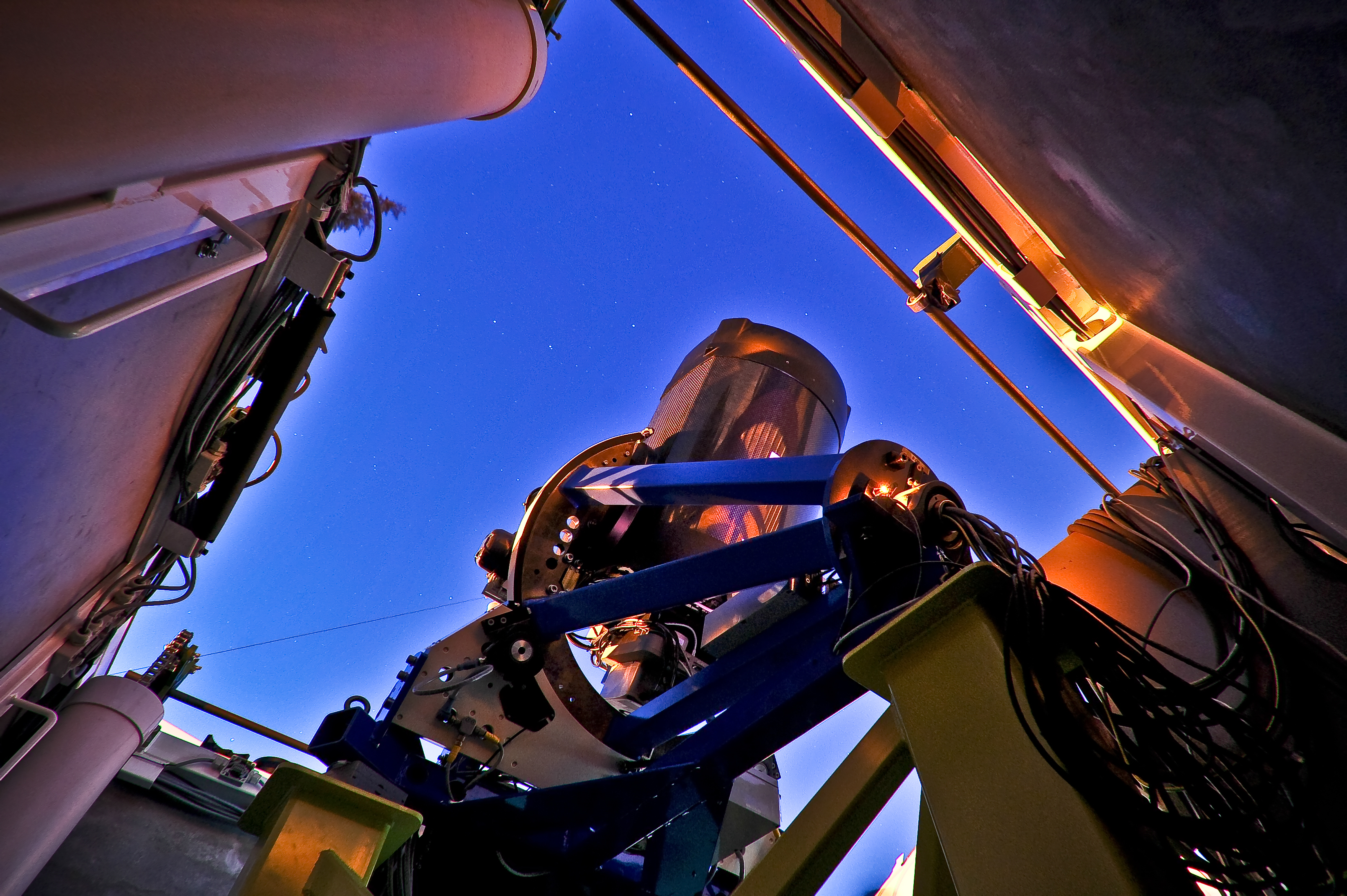 LCOGT 40 cm Telescope